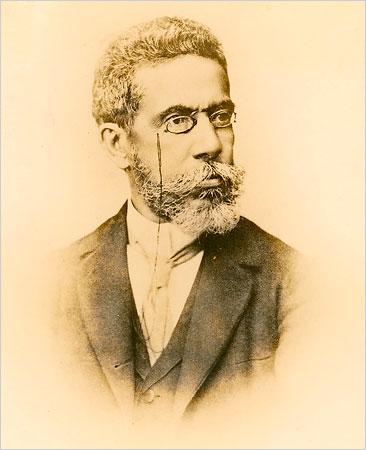 The Brazilian writer Joaquim Maria Machado de Assis.